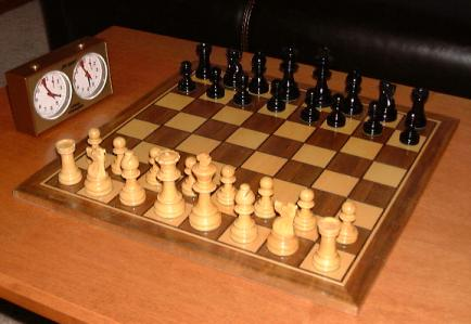 Chess game and play clock with the pieces in their initial position. Bân-lâm-gú: 國際武棋拄欲開始的時陣，佮計時的時觳仔。